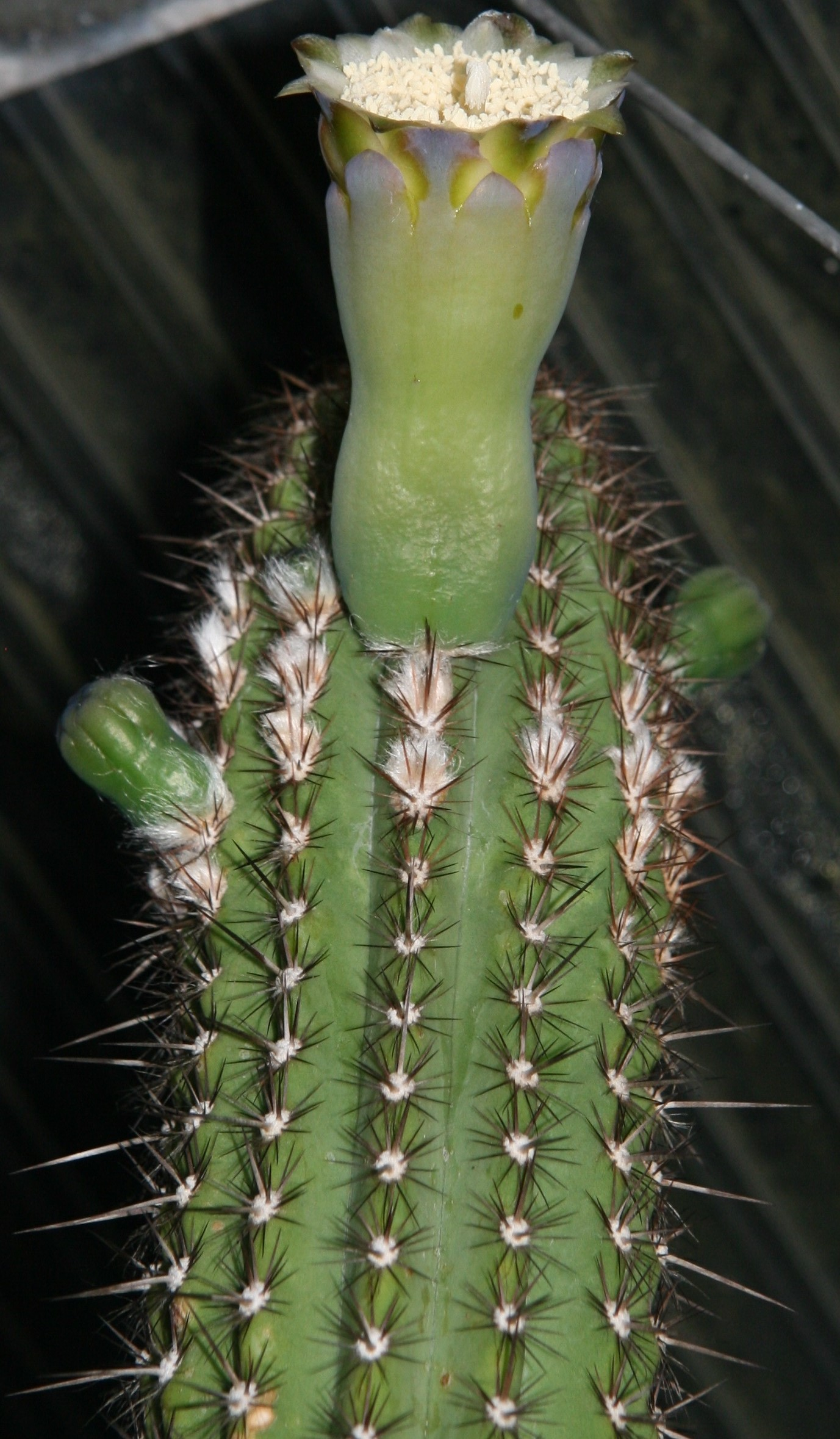 flowering plant from the dunes near Genipabu/Natal, Rio Grande do Norte, Brasil (regarded as a synonym of ssp. salvadorensis ) by some authors